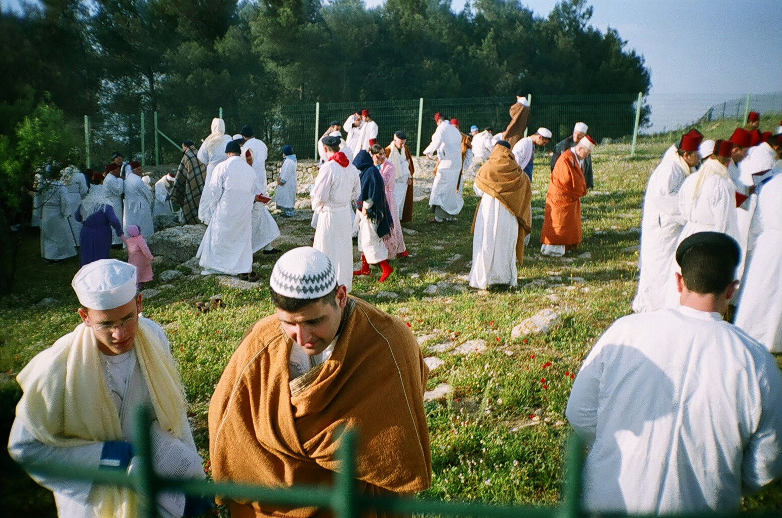 Samaritans on the Mount Gerizim (2006)